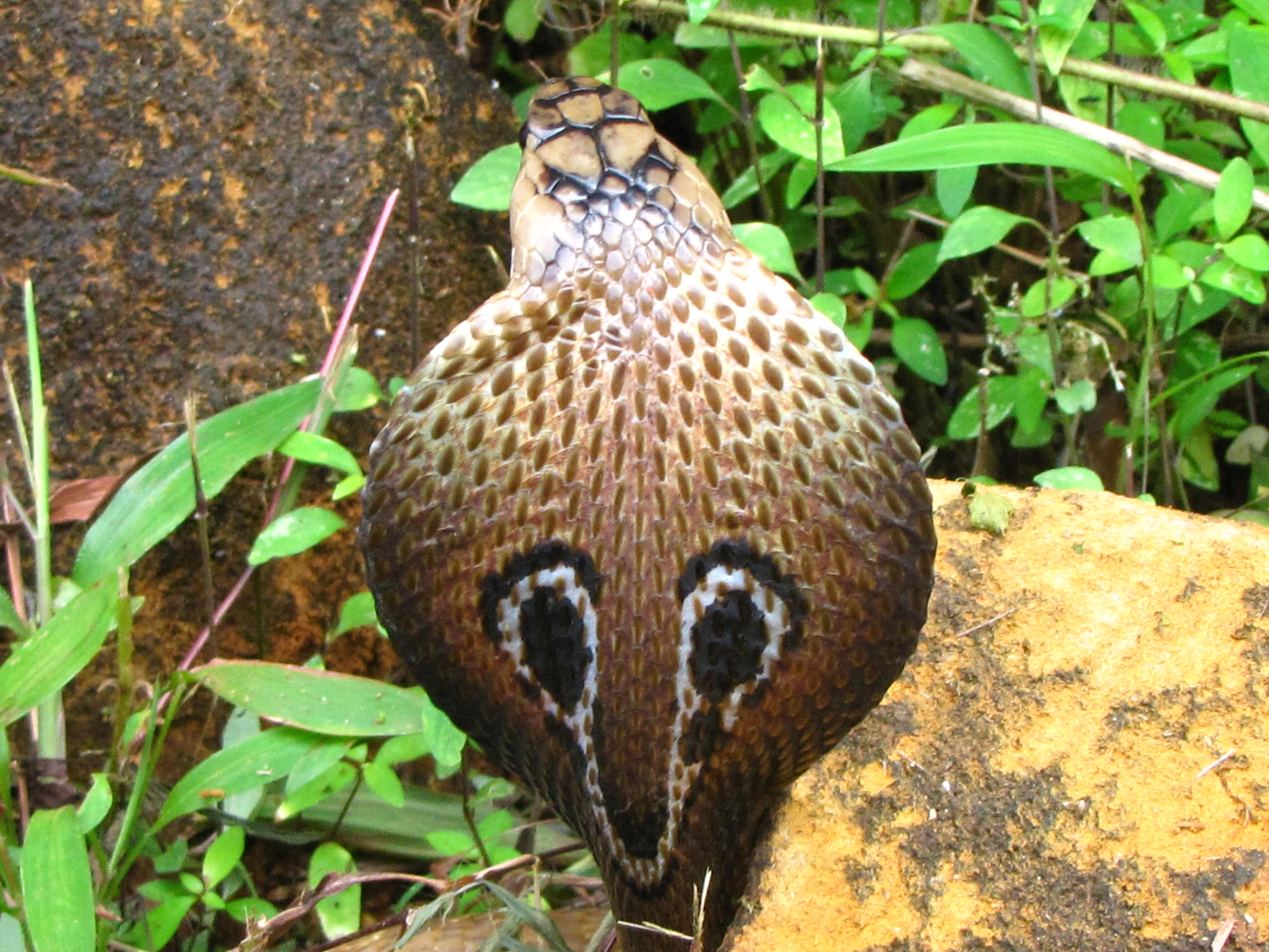 Naja naja